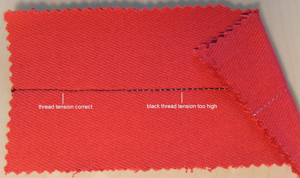 Illustrates correct and incorrect thread tension when creating a lockstitch